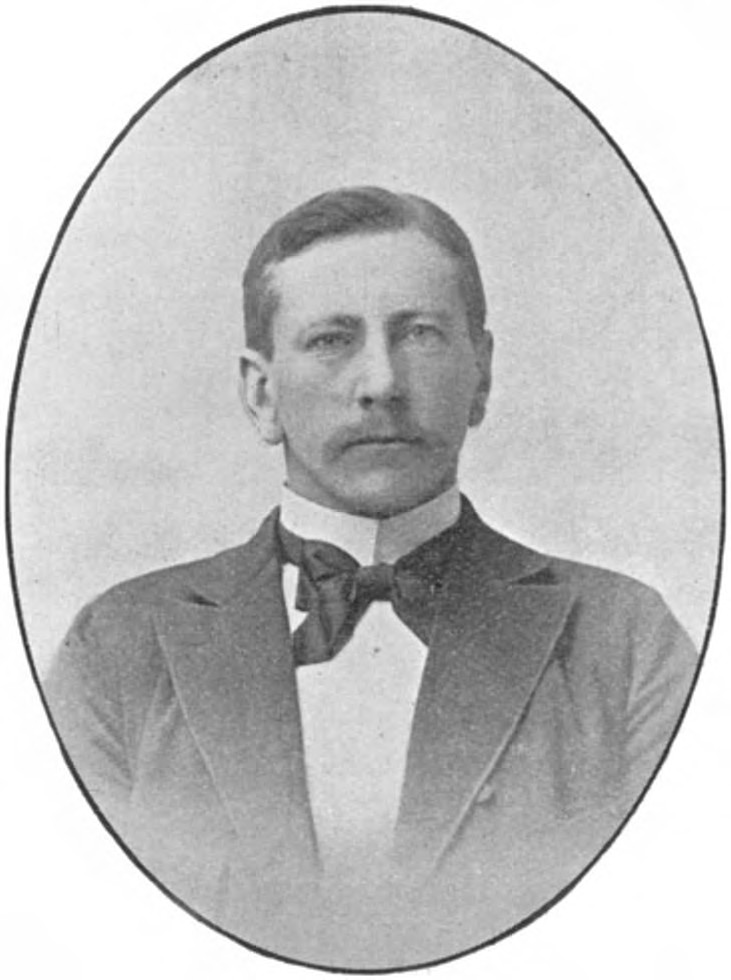 nameMr. J. SCHOKKING political affiliationFrisian League positionmember of the House of Representatives of the Netherlands districtHarlingen